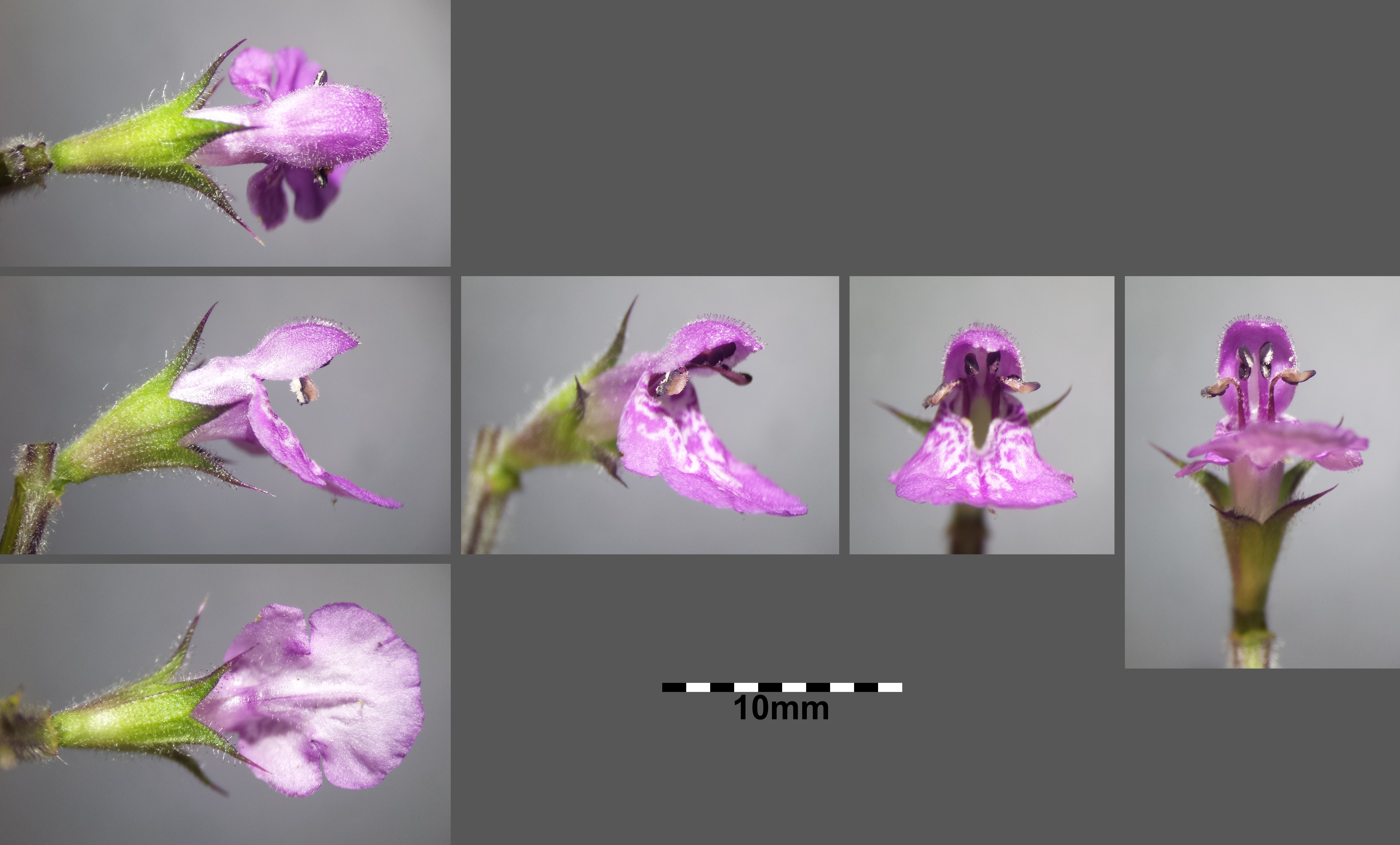 Flower Taxonym: Stachys palustris ss Fischer et al. EfÖLS 2008 ISBN 978-3-85474-187-9 Location: near Merkersdorf, district Korneuburg, Lower Austria - ca. 250 m a.s.l. Habitat: border of a shrubbery